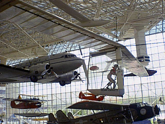 Gossamer Albatross II as presented at Seattle's Museum of Flight WHERE: Museum of Flight, Seattle, WA, USA WHEN: Sometime between May 2 and May 9, 2004 WHO TOOK IT: GURoadrunner WHAT CAMERA: circa-2000 Vivitar digital camera Released into the public domain, but if you want to credit me by name drop me a message at User_talk:Guroadrunner. Attribution/credit not required.